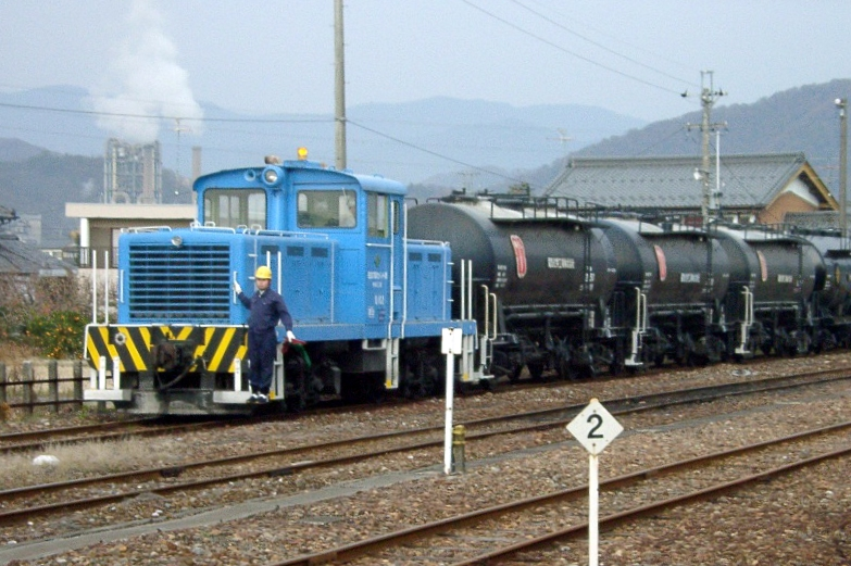 Cement freight train coached by Tarumi railway's 35t switcher type D102, Motosu Sta., Gifu, Japan.